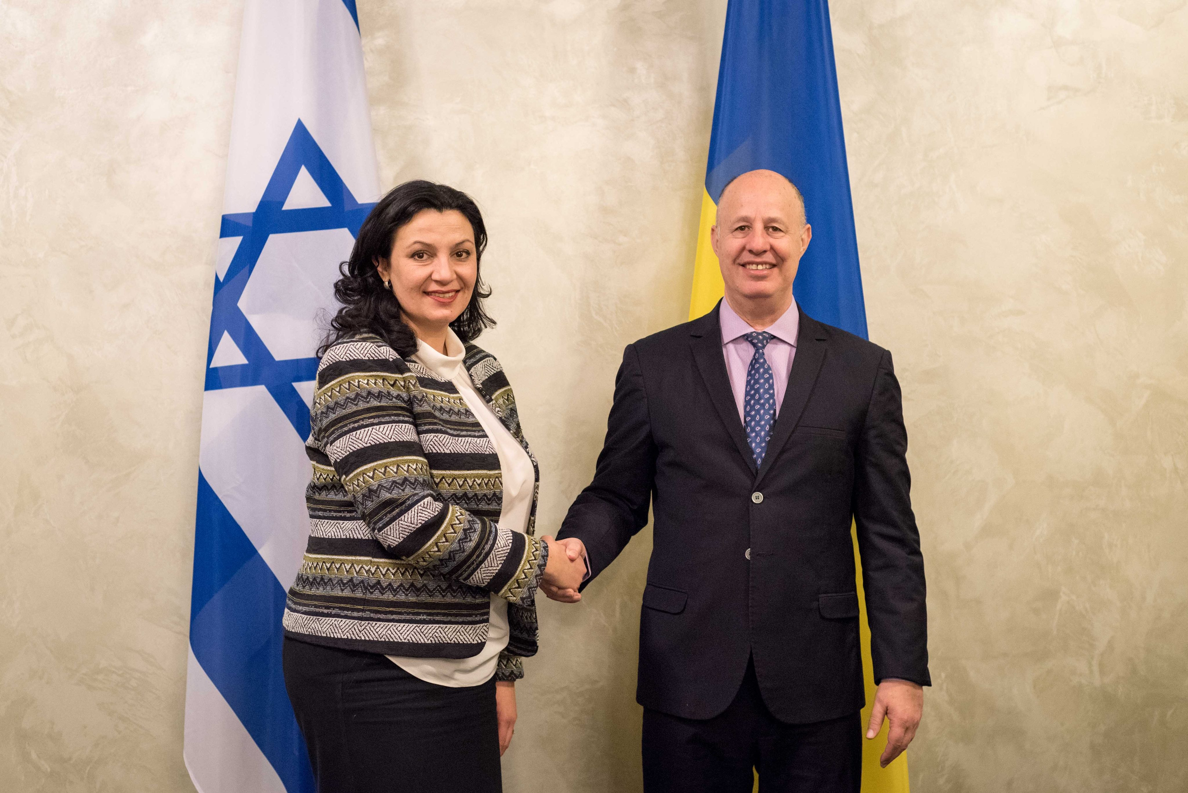 Віце-прем`єр-міністр з питань європейської та євроатлантичної інтеграції України Іванна Климпуш-Цинцадзе зустрілася з Міністром із регіональної співпраці Держави Ізраїль Цахі Ханегбі